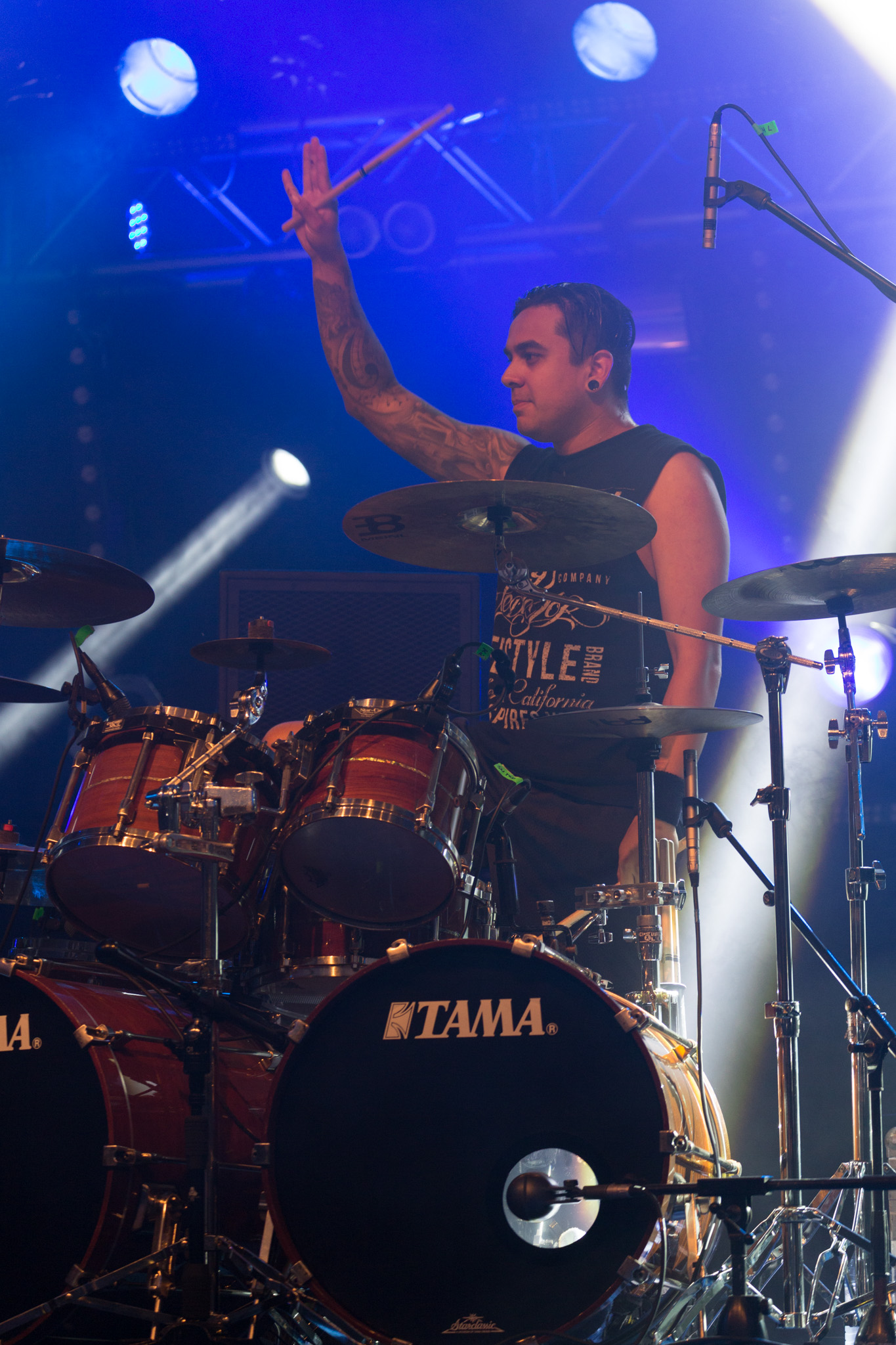 Prong performing at the Eier mit Speck Festival, Viersen, Germany, July 2014